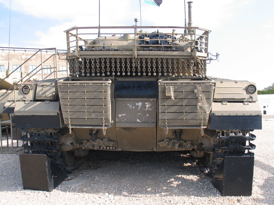 Description: Israeli Merkava Mk II MBT in Yad la-Shiryon Museum, Israel. 2005. Source: Photo by me, User:Bukvoed.